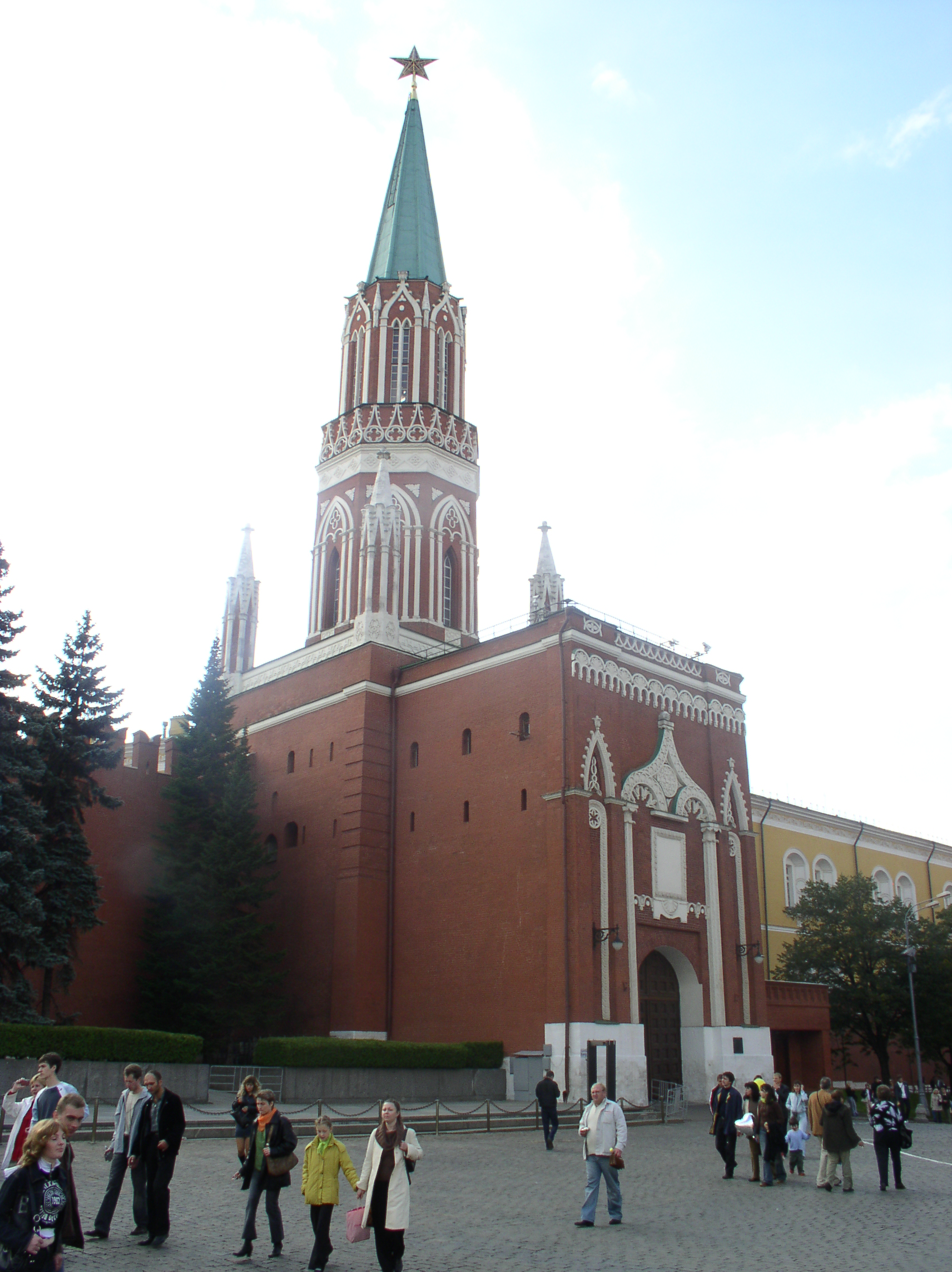 Saint Nicholas tower of Moscow Kremlin. Moscow, Russia.